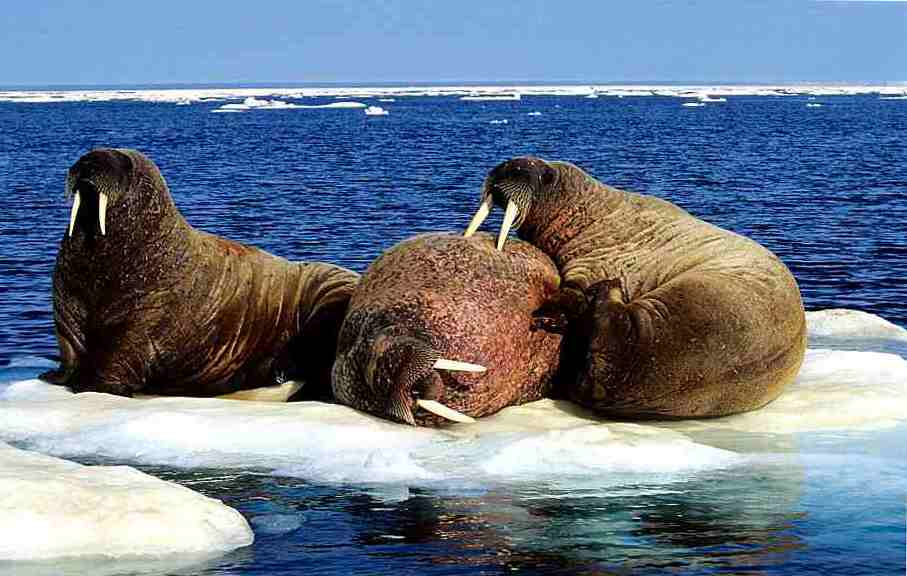 Part of Atlantic walrus herd (Odobenus rosmarus rosmarus), on ice flow in Foxe Basin (Nunavut, Canada)